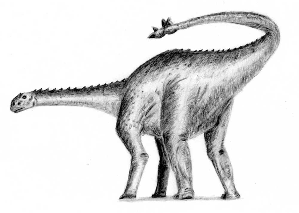 Shunosaurus Author:User:ArthurWeasley